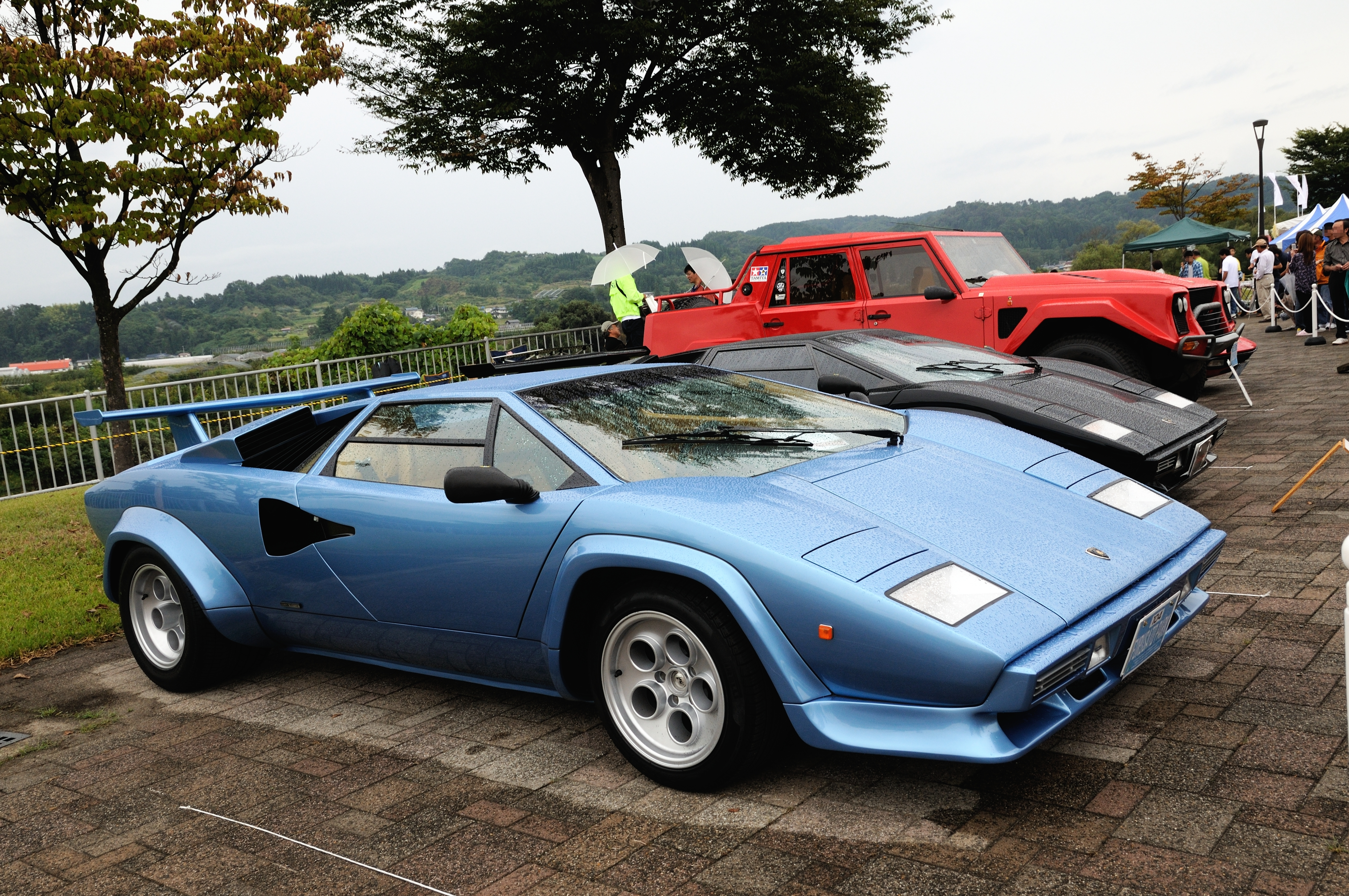 1978-1979 Lamborghini Countach LP400S series 1, with the original Campagnolo Bravo wheels